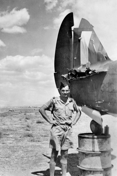 French Mandate for Syria and Lebanon: Lebanon, Beirut Tripoli Area, Rayak. Informal portrait of 386 Wing Commander Alan Charles Rawlinson, DFC, after landing his damaged aircraft. This image is from the collection of 493 Squadron Leader John Francis Jackson, DFC, Royal Australian Air Force (RAAF). A distinguished fighter pilot, Sqn Ldr Jackson served with No. 23 Squadron in Australia (1939), No. 3 Squadron in the Middle East (1940-1941), and No. 75 Squadron in Papua New Guinea (1942). He was killed in action on 28 April 1942 during a flying battle over Papua New Guinea and is buried in Bomana War Cemetery. Jackson International Airport, Port Moresby, commemorates him.